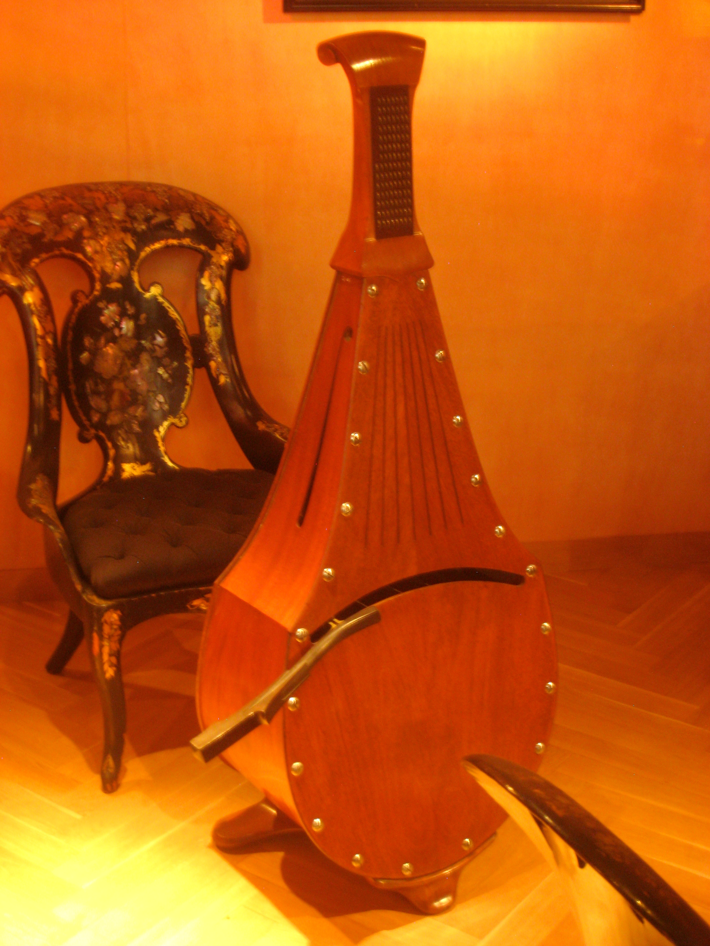 Unusual instruments in the Musical Instrument Museum, Brussels, Belgium. Cécilium (video)